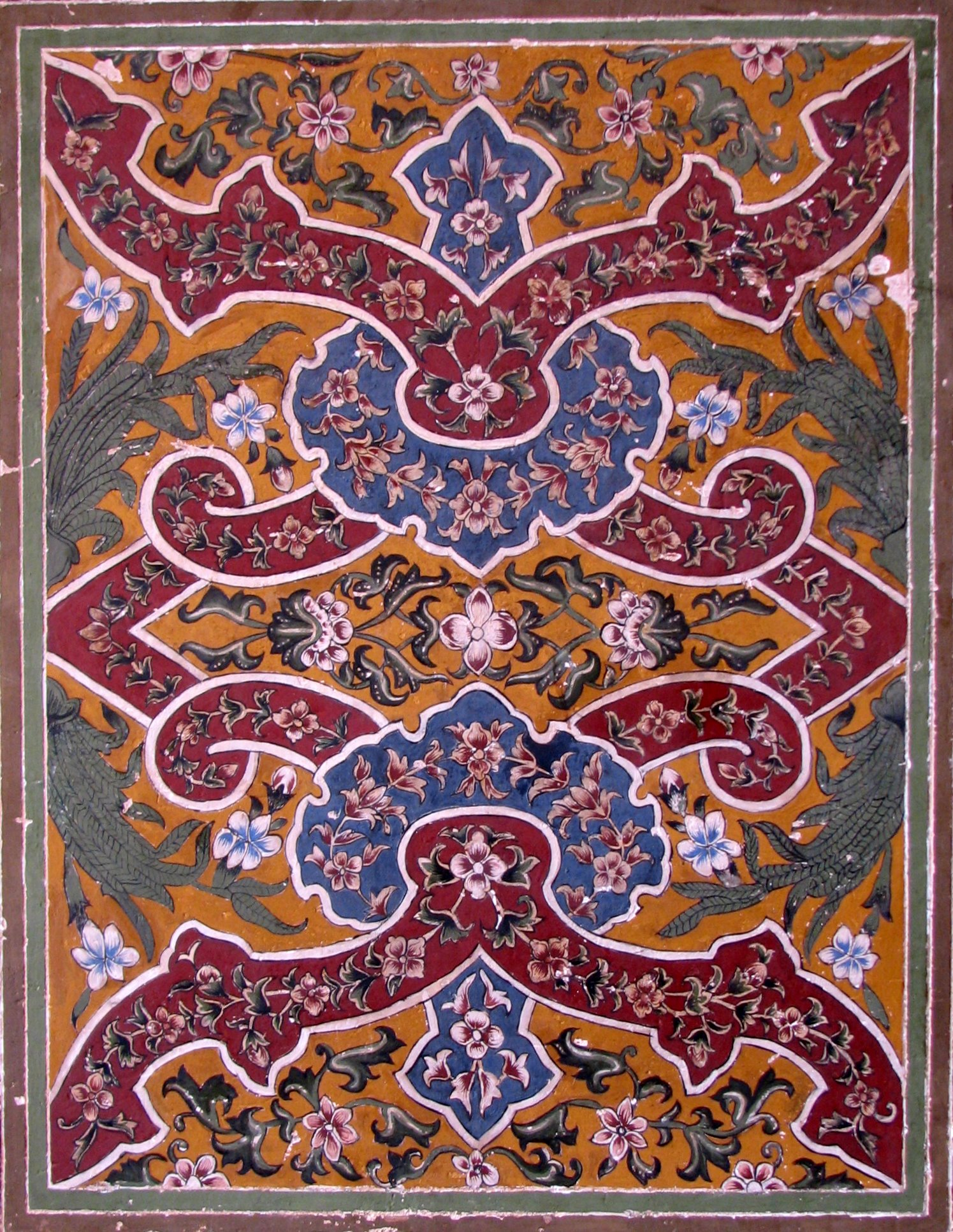 The Wazir Khan Mosque in Lahore, Pakistan, is famous for its extensive faience tile work. It was built in seven years, starting around 1634-1635 A.D., during the reign of the Mughal Emperor Shah Jehan. It was built by Shaikh Ilam-ud-din Ansari, a native of Chiniot, who rose to be the court physician to Shah Jahan and later, the Governor of Lahore. He was commonly known as Wazir Khan. (The word wazir means 'minister' in Urdu language.) The mosque is located inside the Inner City and is easiest accessed from Delhi Gate. (